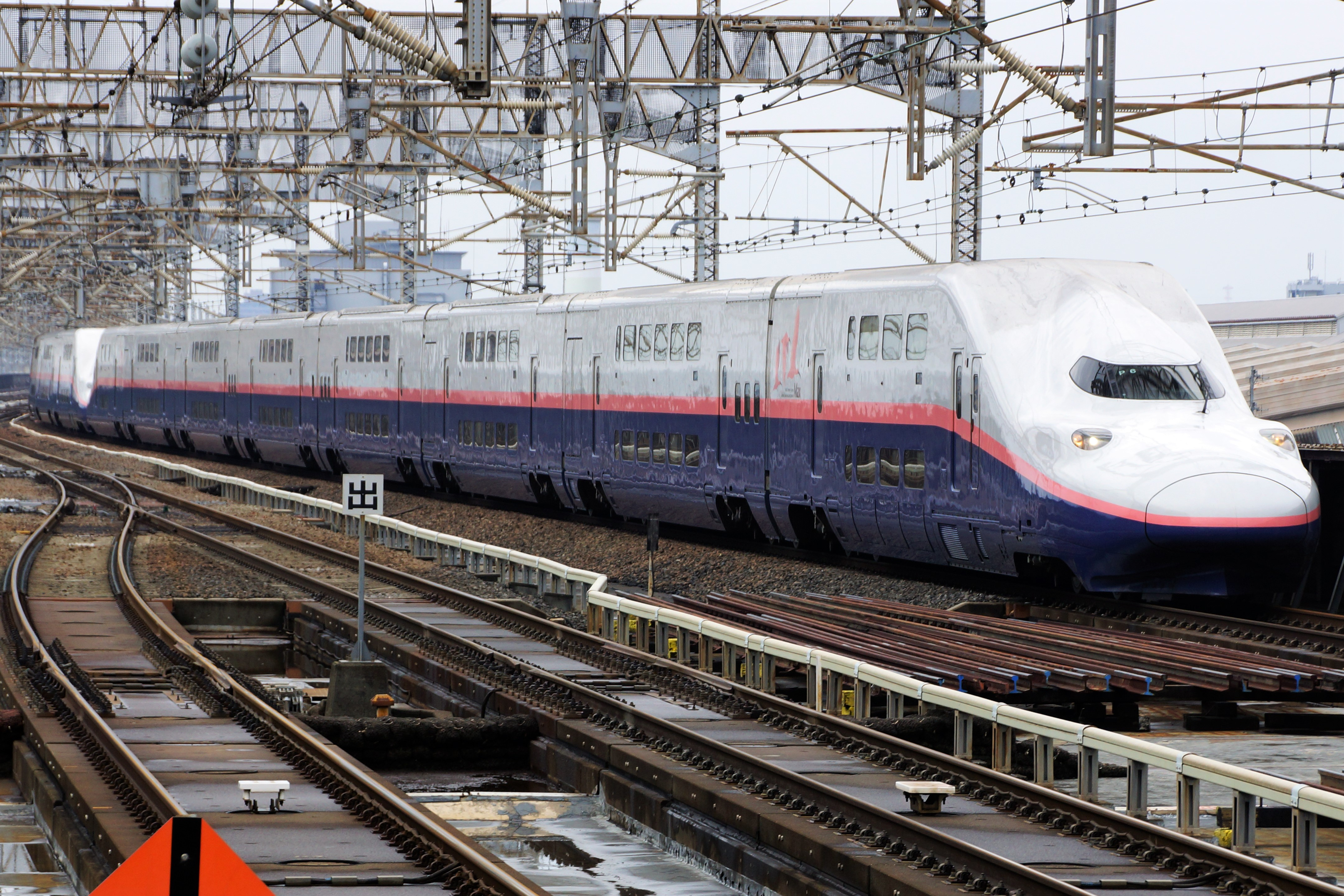 A pair of JR East E4 series shinkansen sets led by set P6 approaching Omiya Station on a Tokyo-bound service